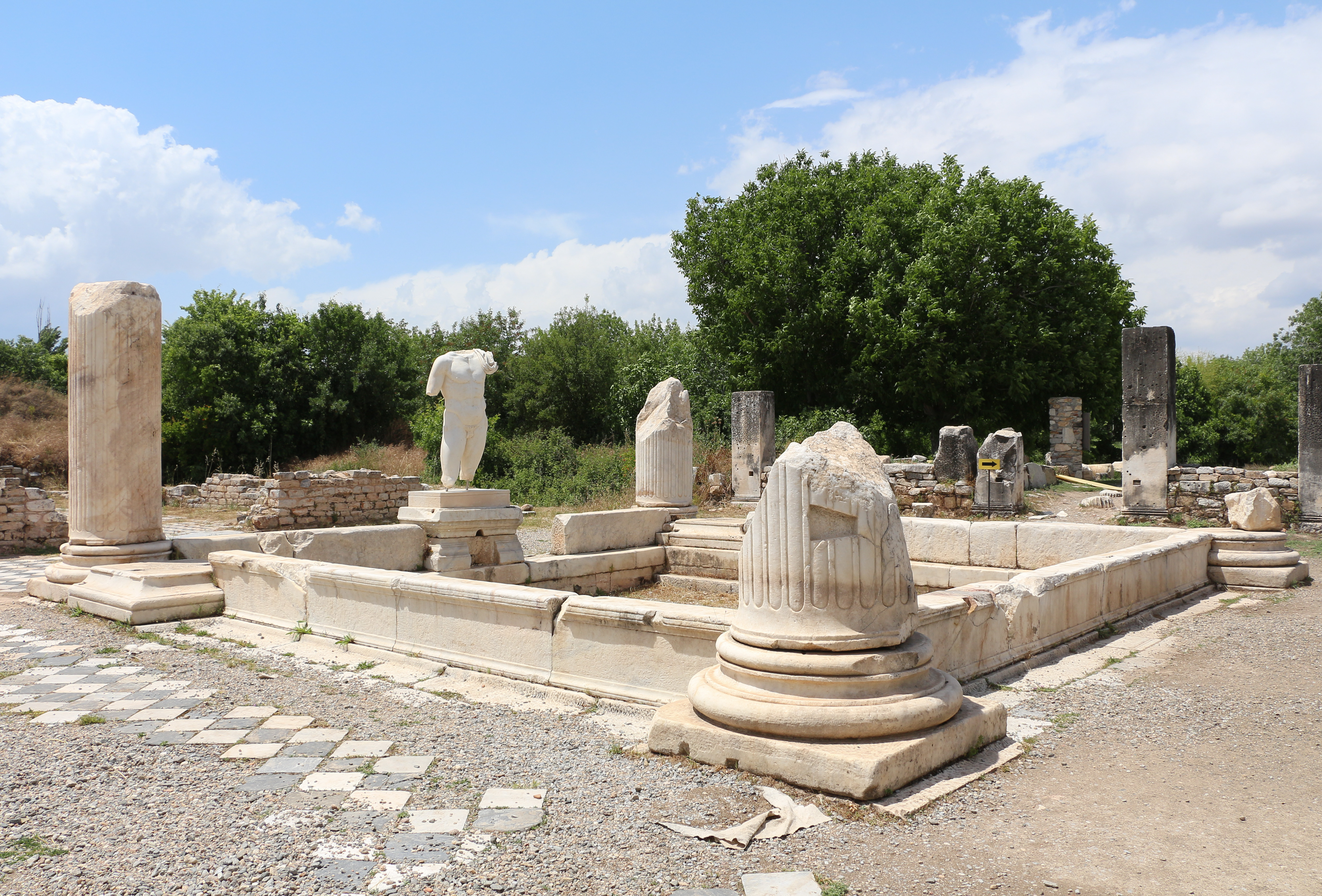 Baths of Hadrian, Aphrodisias, Turkey